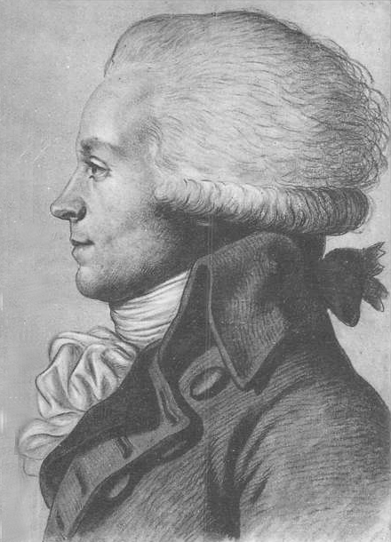 Physionotrace of Maximilien Robespierre, unsigned drawing formerly attributed to Antoine-Paul Vincent. Pencil with white pastel highlights on pink paper, 44 x 39 cm. The visual relationship with the 1792 engraving by Gilles-Louis Chrétien after Jean-Baptiste Fouquet raises the possibility it may be Fouquet's original drawing; the media, dimensions and style also suggest this [1].